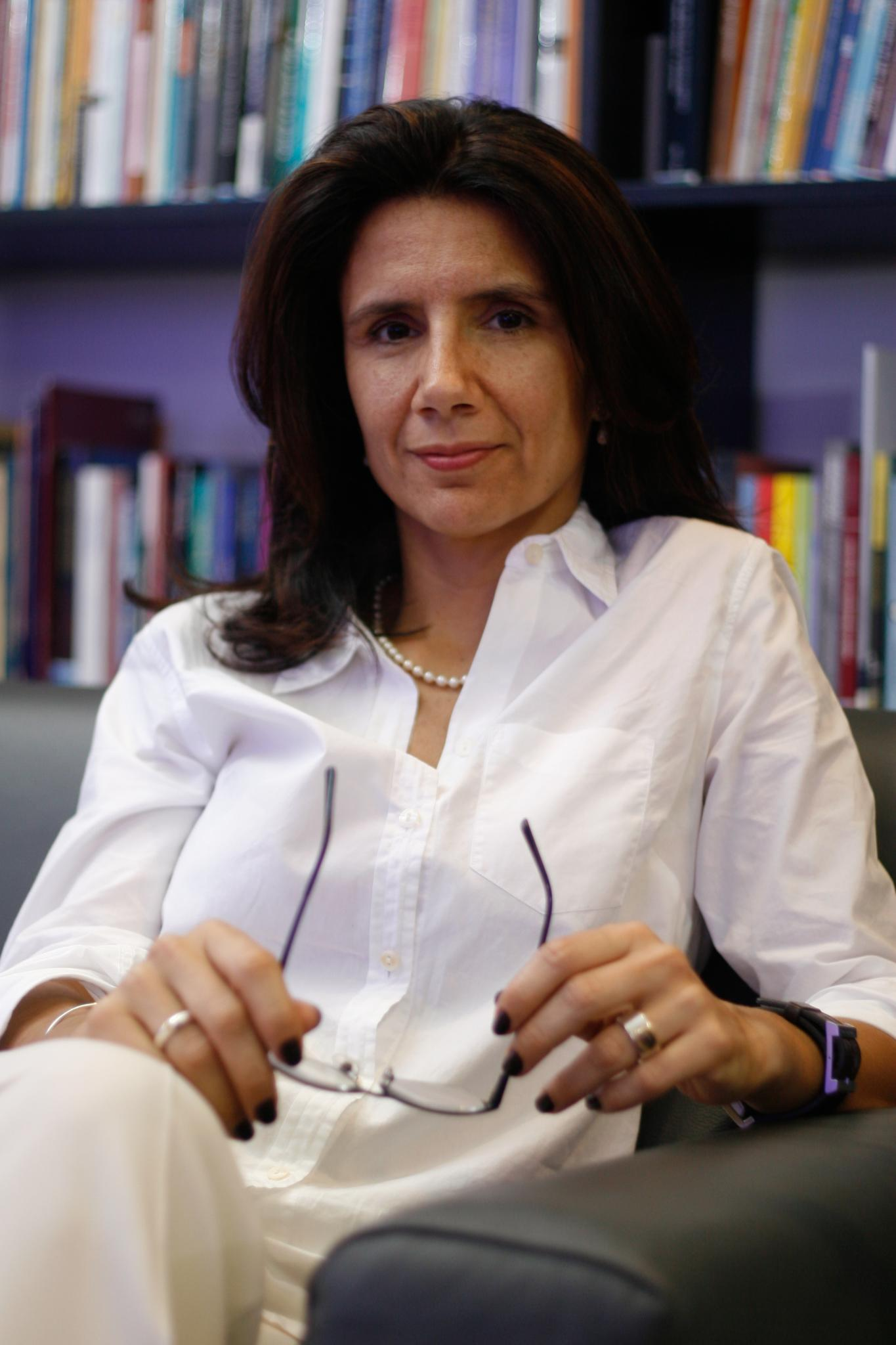 Portrait of Ana Toni, newly appointed chair of Greenpeace International, in 2009.